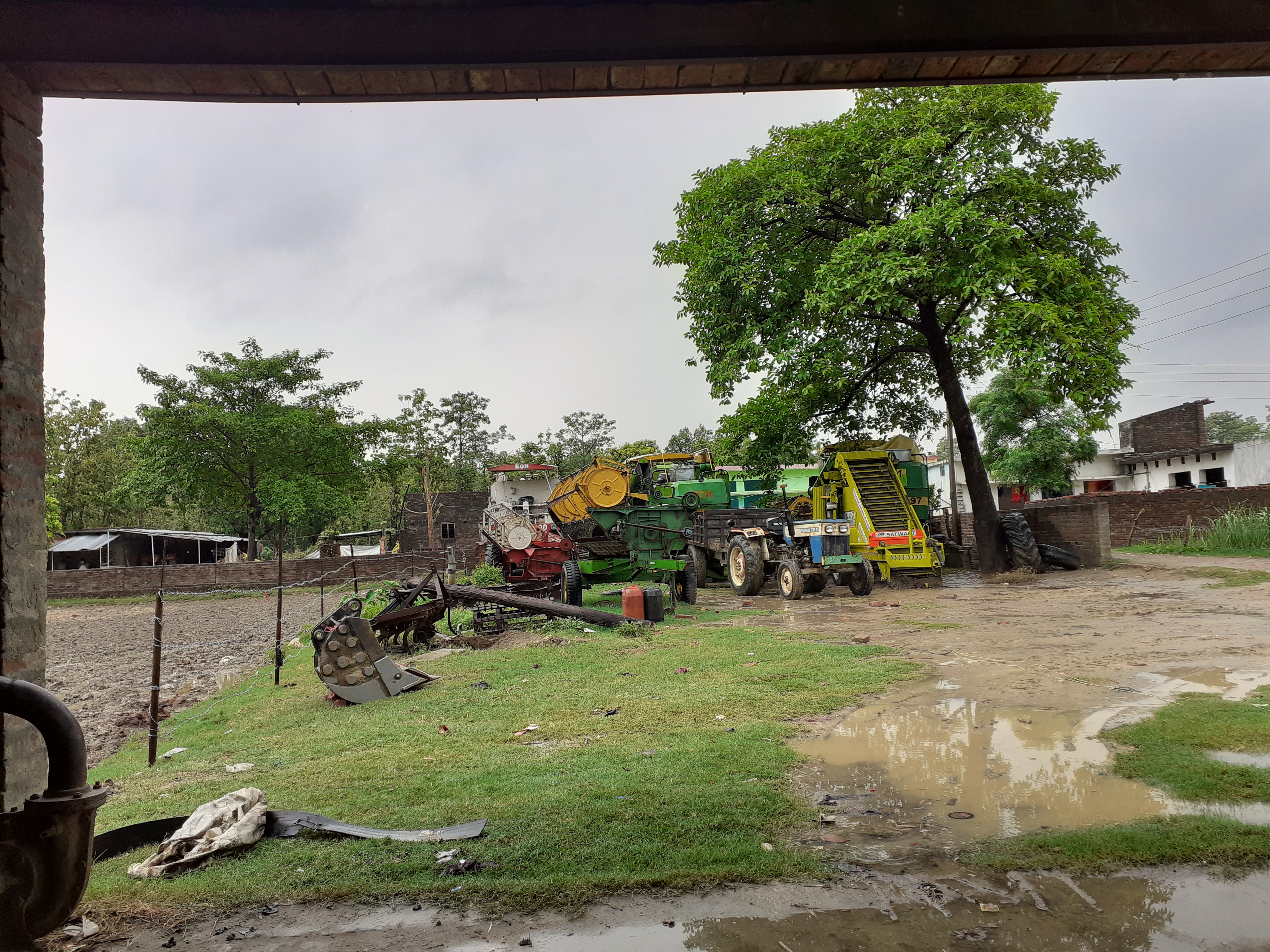 Basantpur after raining time